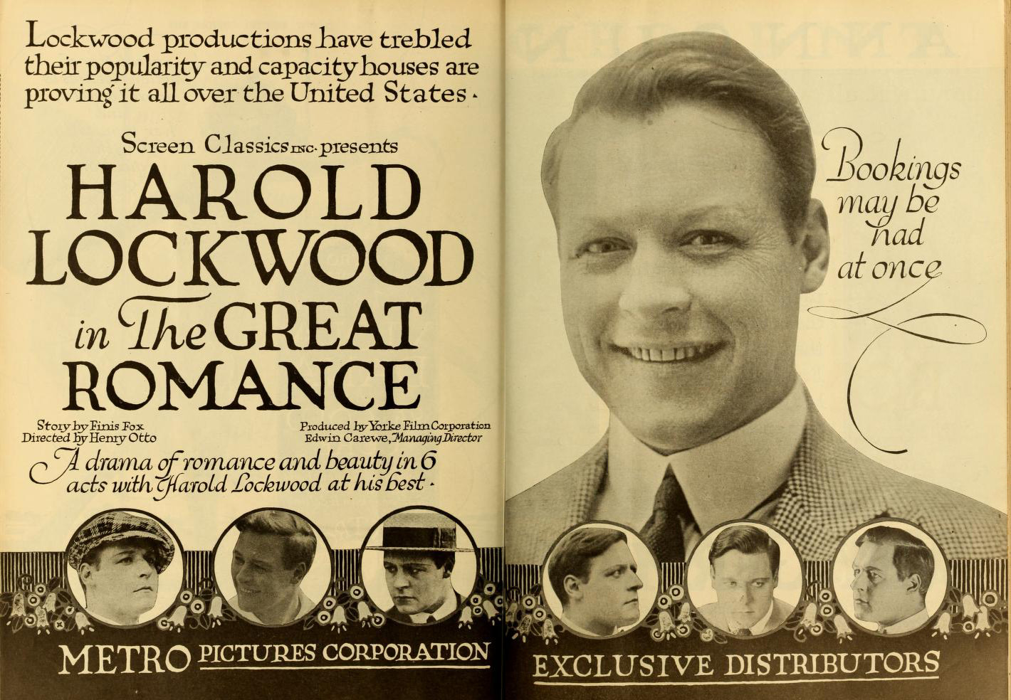 Advertisement in Moving Picture World, January 1919 for the film The Great Romance (1919) with Harold Lockwood.